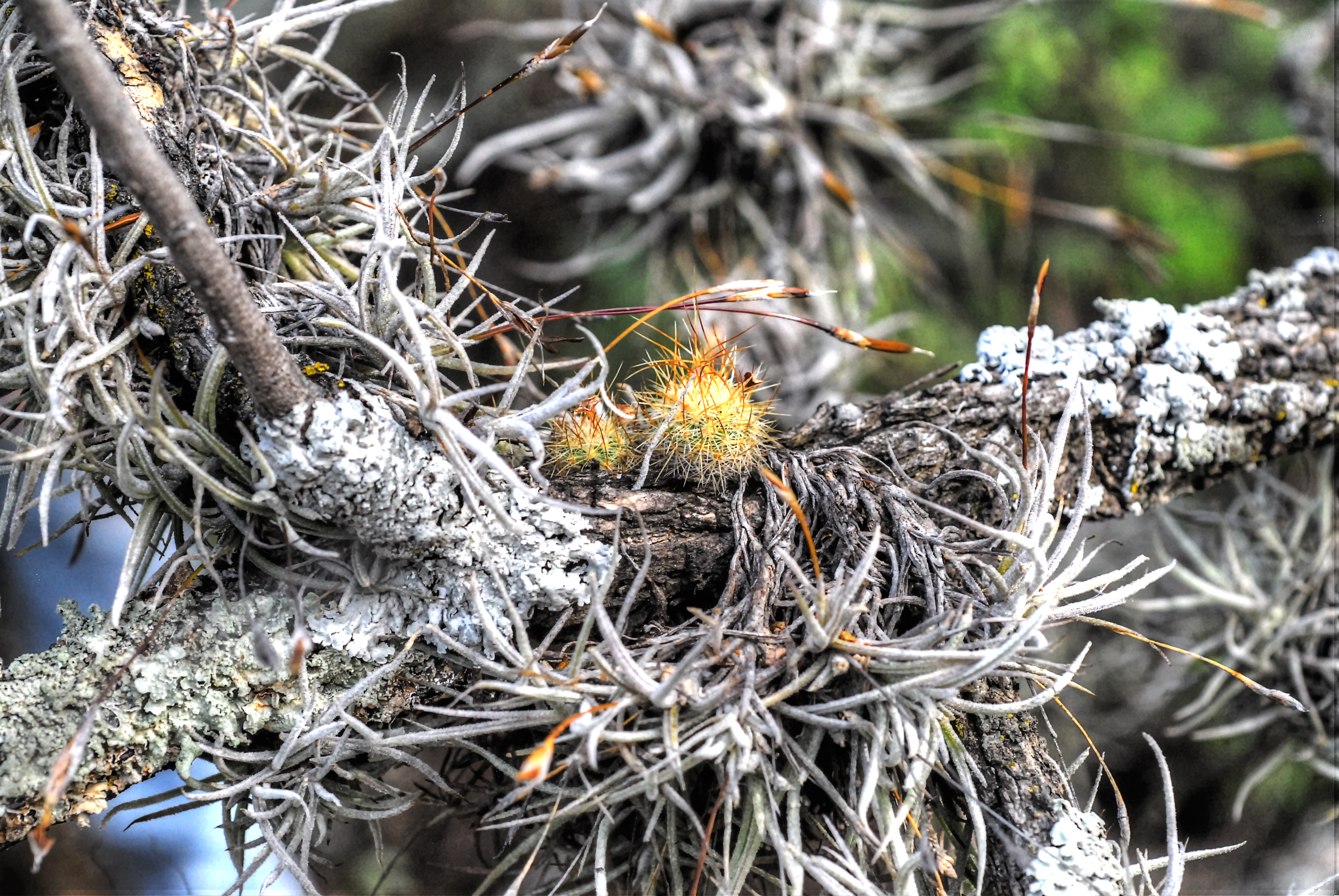 HDR picture of epiphytic Mammillaria aff. rhodantha and Tillandsia sp. at Presa Madero, Hidalgo, Mexico